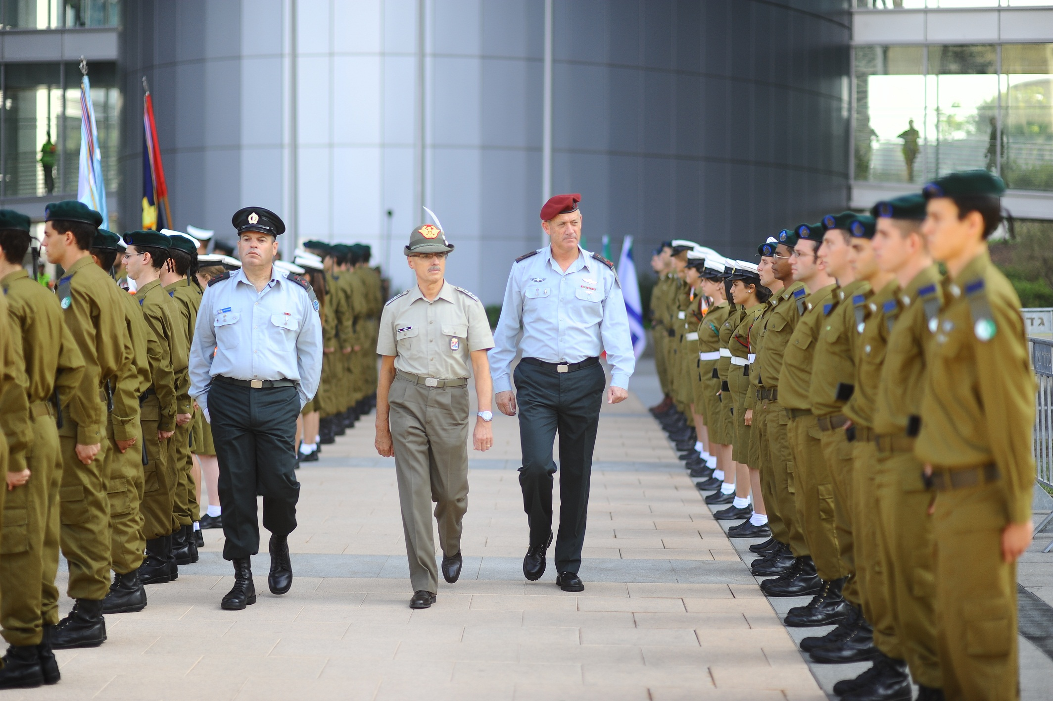 October 16, 2012 The Chief of Staff of the Italian army, General Biagio Abrate arrived today in Israel as a guest of IDF Chief of General Staff Lt. Gen. Benny Gantz. He was received by an honorary guard at the IDF headquarters in Tel Aviv. His visit is the latest landmark in long history of strong Israeli-Italian cooperation. The Israel Defense Forces Facebook • blog • Twitter